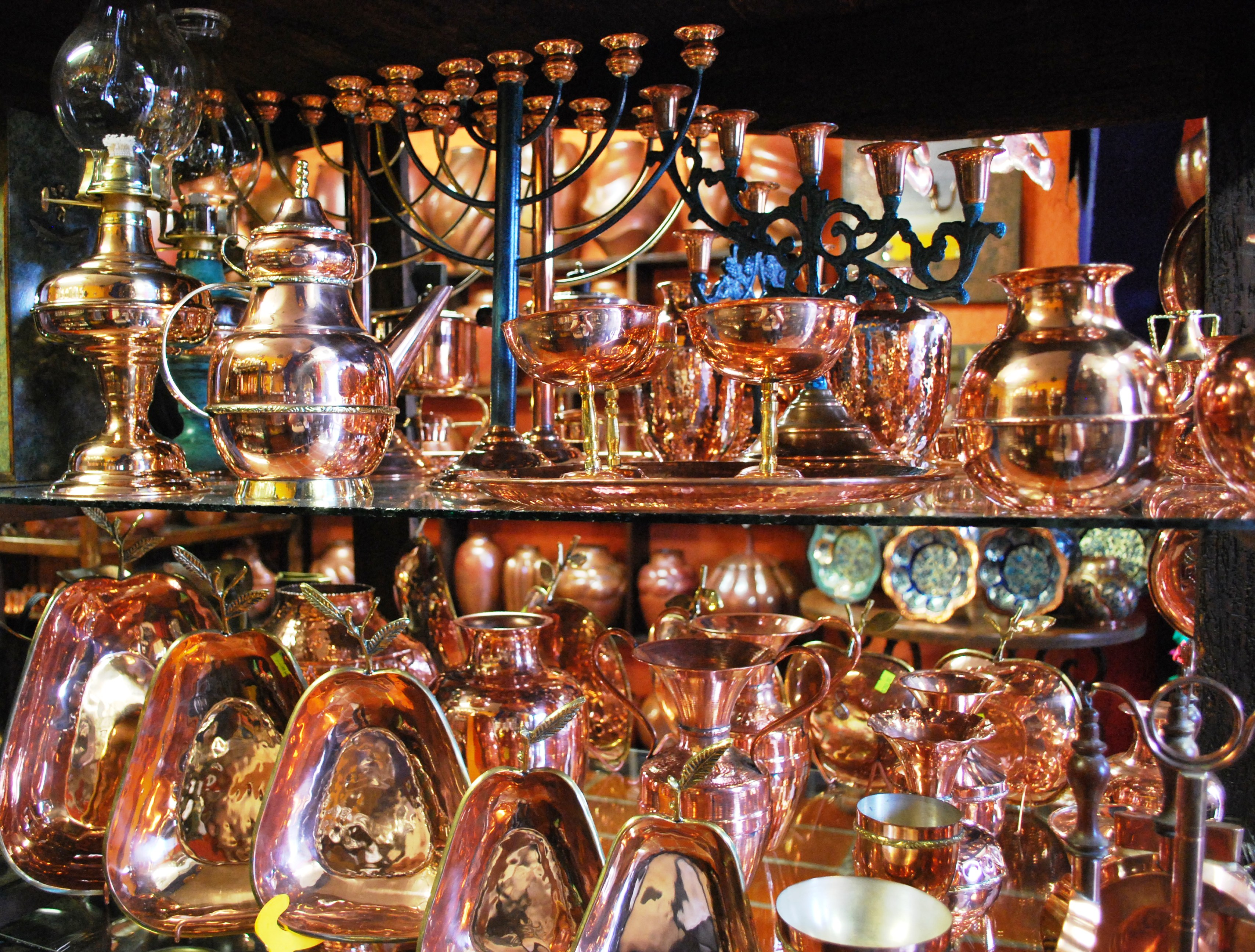 Copper tableware on display in Santa Clara del Cobre, Michoacán